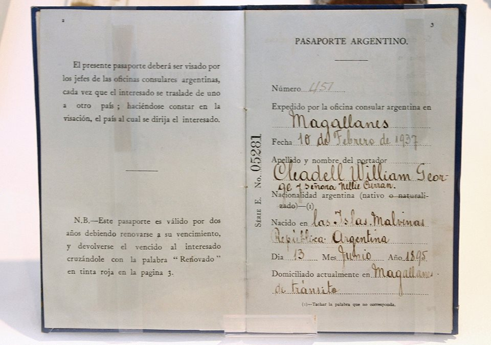 Argentine passport of William George Gleadell, born in the Falkland Islands on June 13, 1895, issued by the Consulate of Argentina in Punta Arenas (Magallanes), Chile, on February 10, 1937.